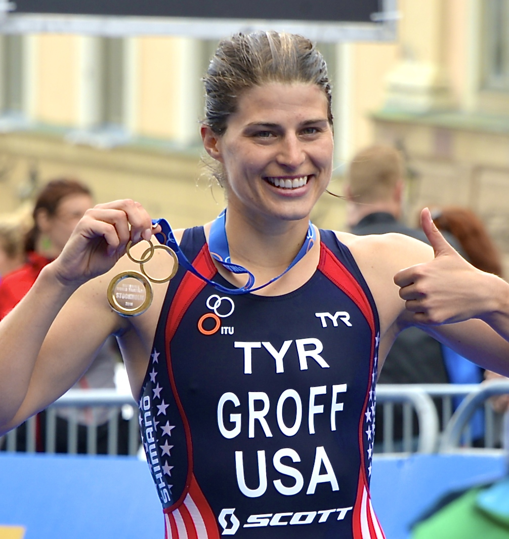 The winner in the female category in the 2014 ITU World Triathlon in Stockholm: Sarah Groff, USA.